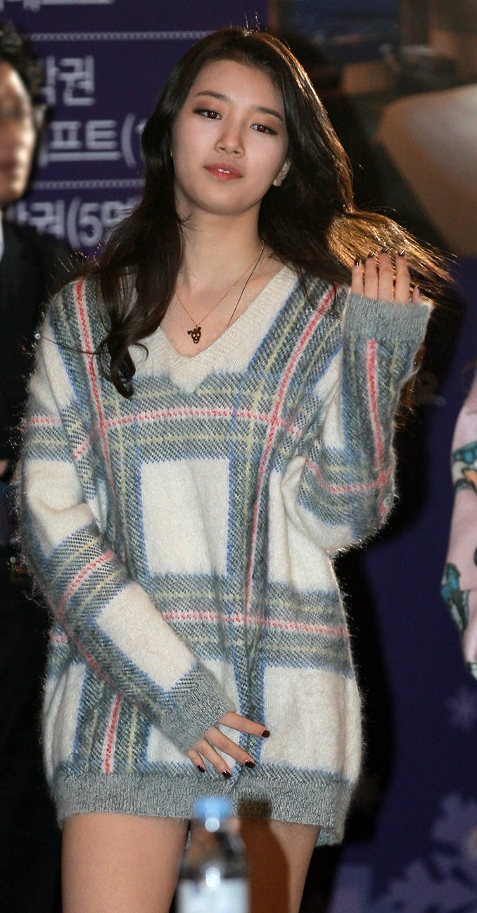 Bae Suzy at IFC Mall on Yeouido Island, 27 December 2013